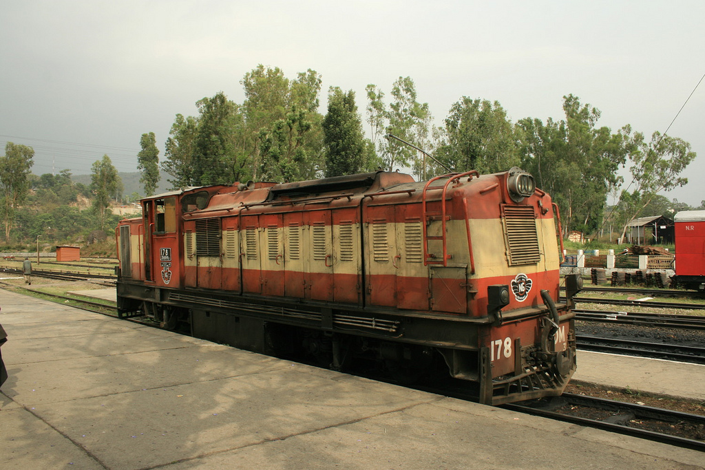 ZDM Engine In engine naming - Z - narrow gauge, D - diesel, M - mixed (used for goods & passenger)